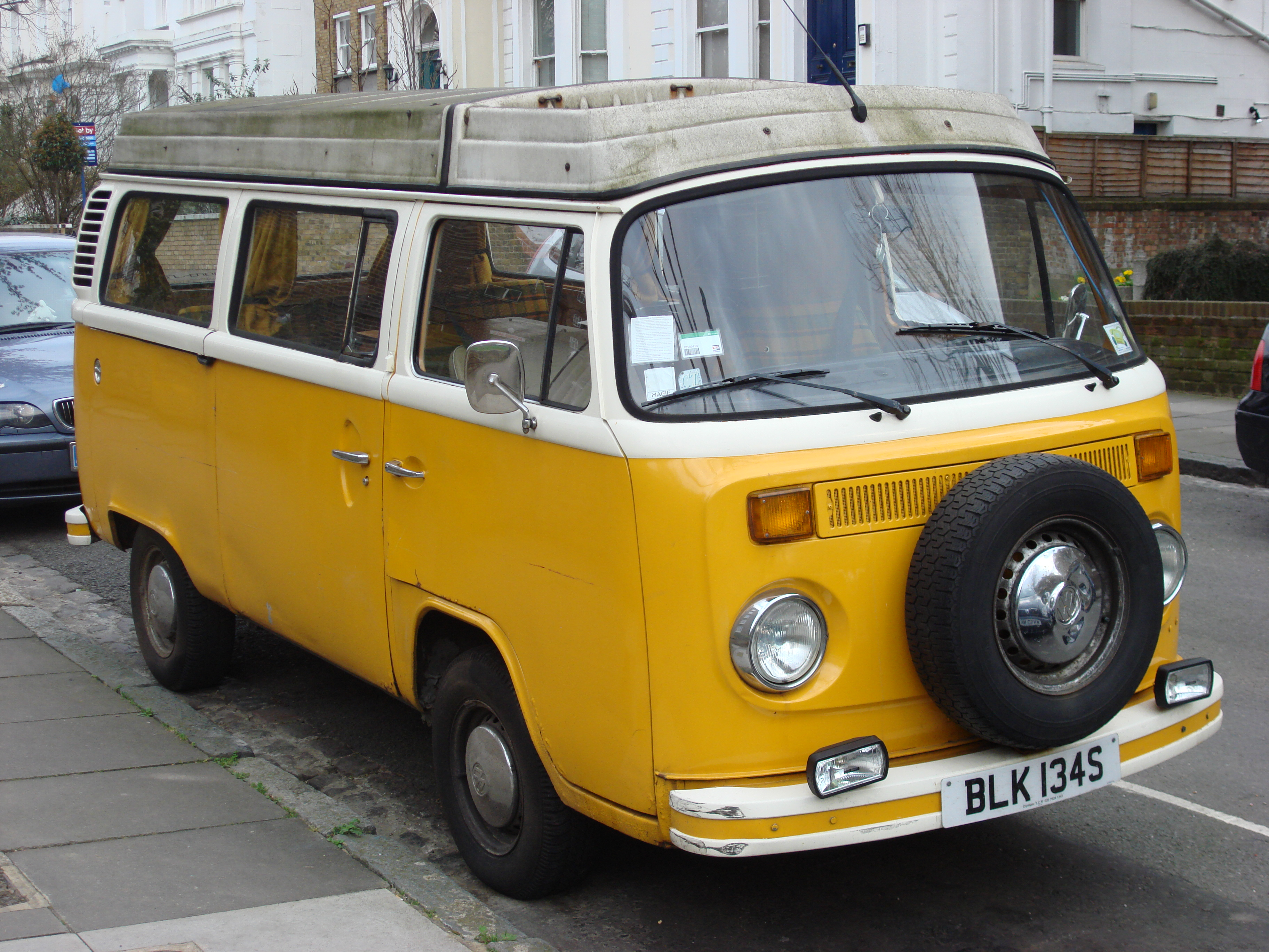 A Yellow and White Volkswagen T2 campervan.